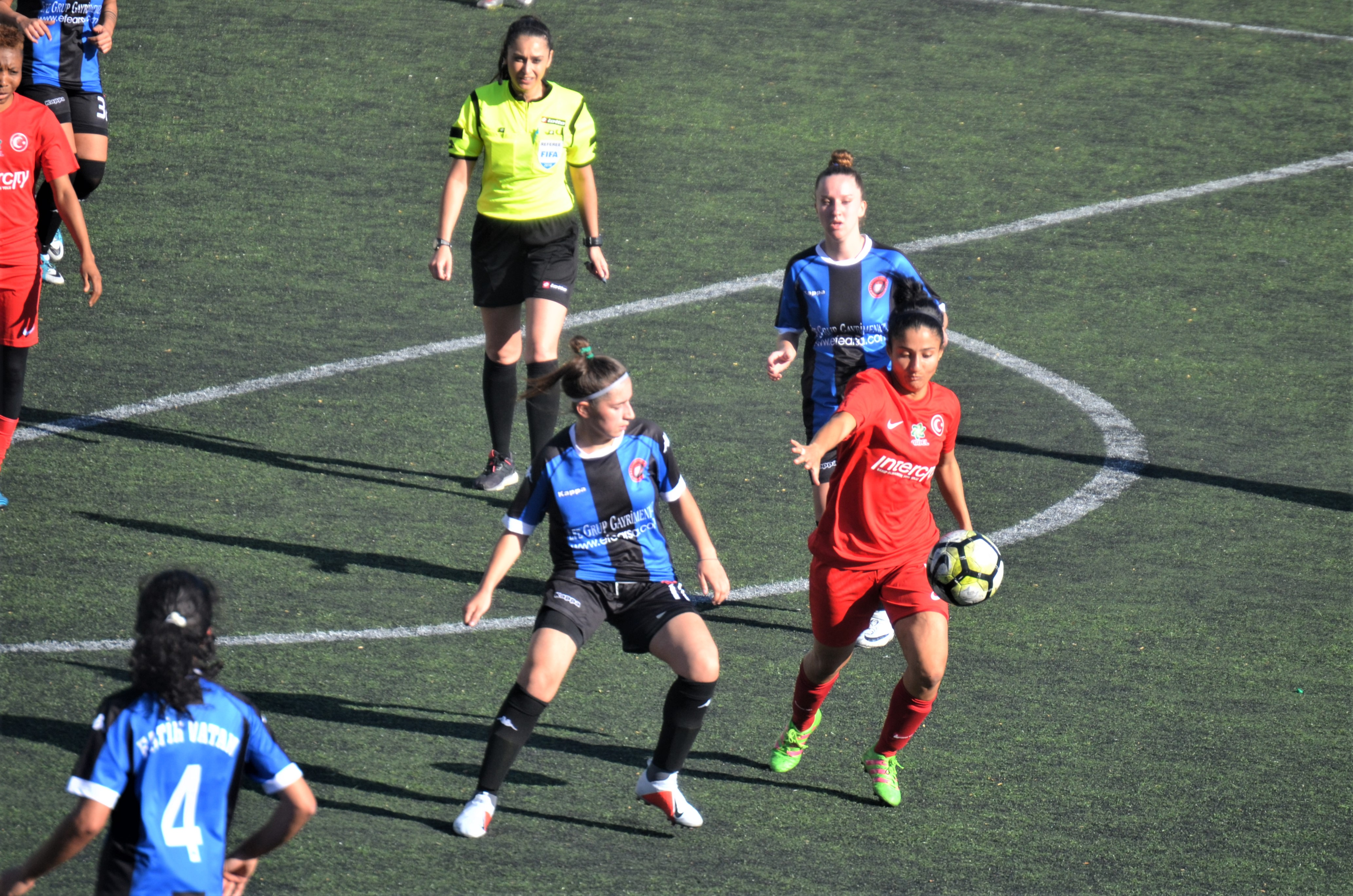 Neslihan Muratdağ (referee) officiating the 2018-19 First League match Fatih Vatan Spor (blue/black) against Ataşehir Belediyespor (red).